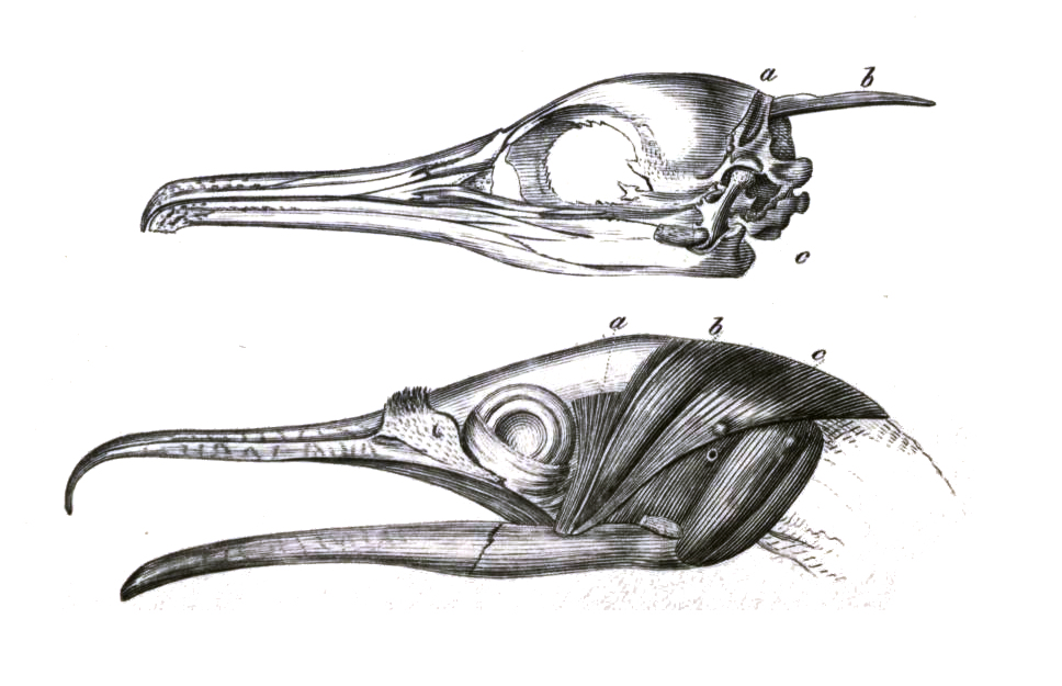 Occipital style of Phalacrocorax carbo - then called a Xiphoid process